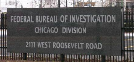 The FBI's Chicago division.